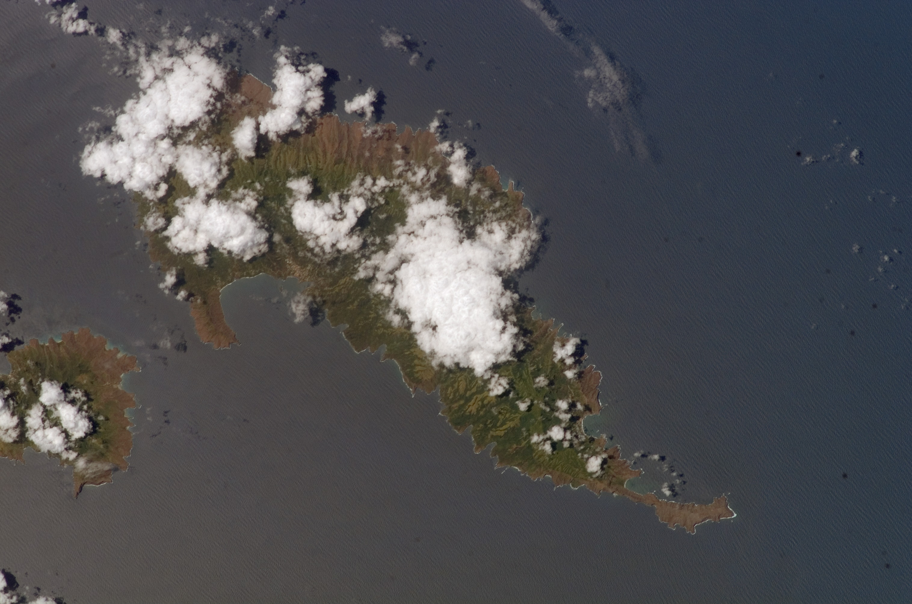 NASA astronaut image of Hiva Oa and Tahuata, Marquesas Islands, French Polynesia